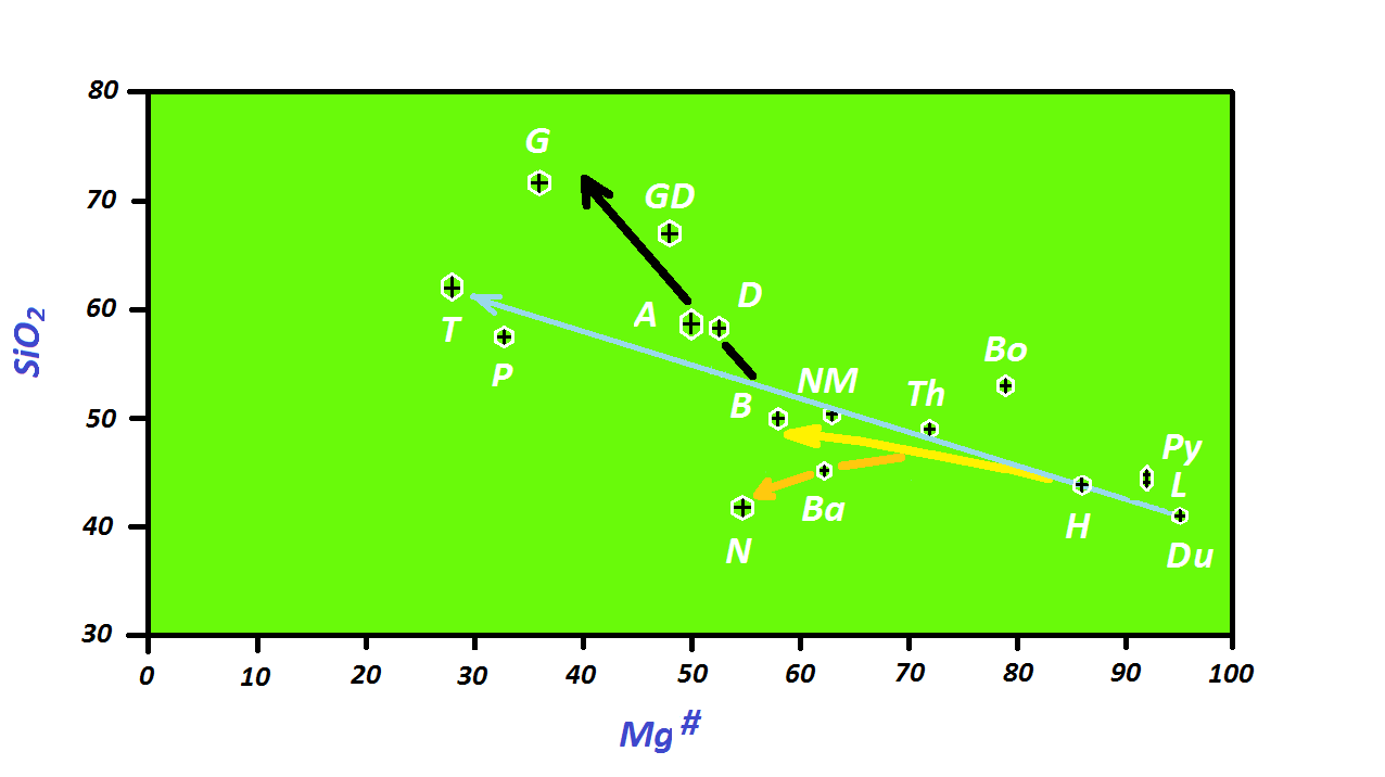 Binary plot of Mg-number Mg# against the SiO2-content of average rock types. Abbreviations are as follows: A: andesite B: basalt Ba: basanite Bo: boninite D: diorite Du: dunite G: granite GD: granodiorite H: harzburgite L: lherzolite N: nephelinite NM: N-MORB P: phonolite Py: pyrolite T: trachyte Th: arc tholeiite